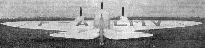 Couzinet 33 photo from L'Aerophile Salon 1932